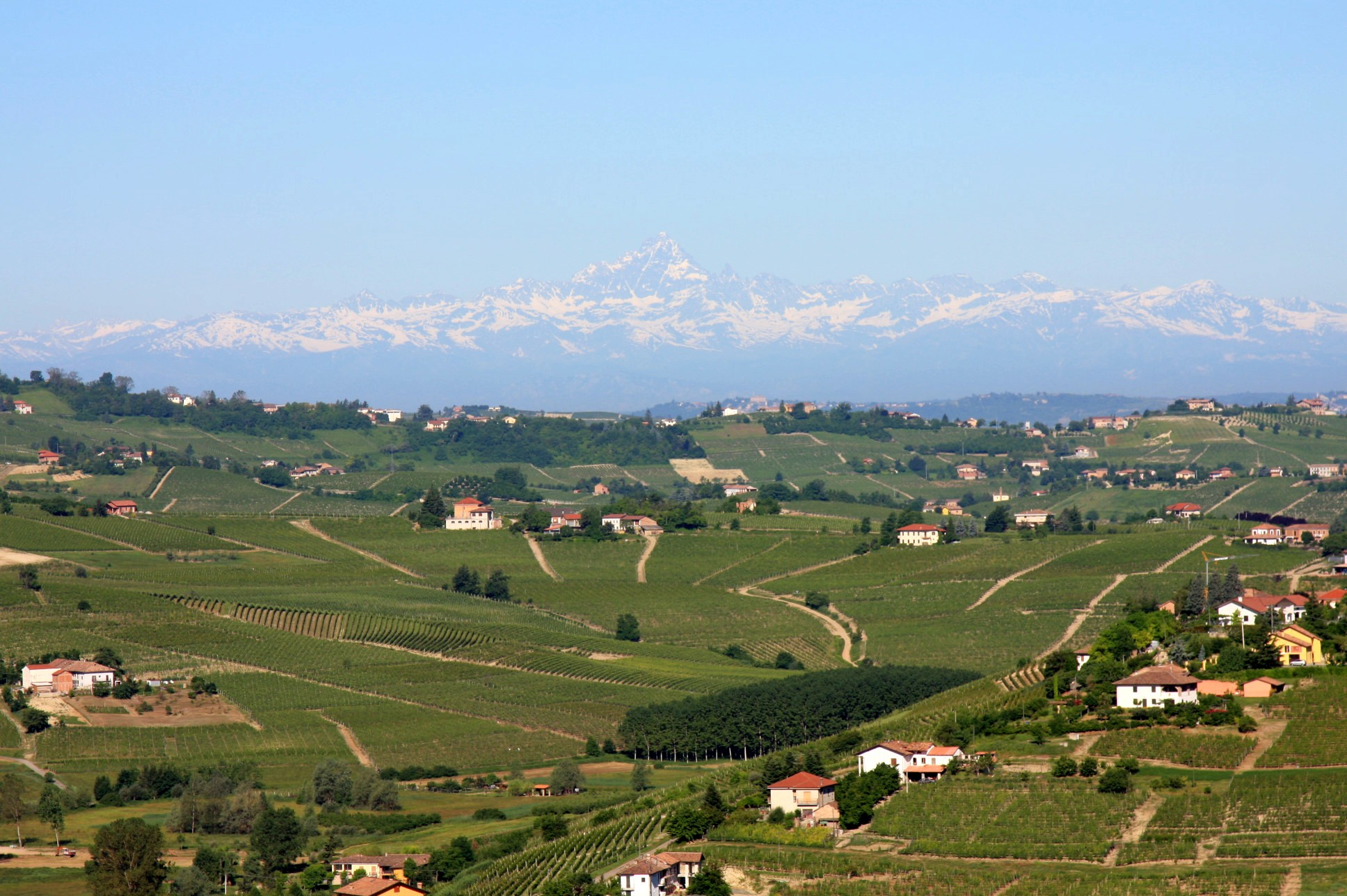 Monviso, taken from San Marzano Oliveto, Piedmont, Italy. The peak of Monviso is 60 miles (96 kilometers) away. Note the vineyards in the foreground.